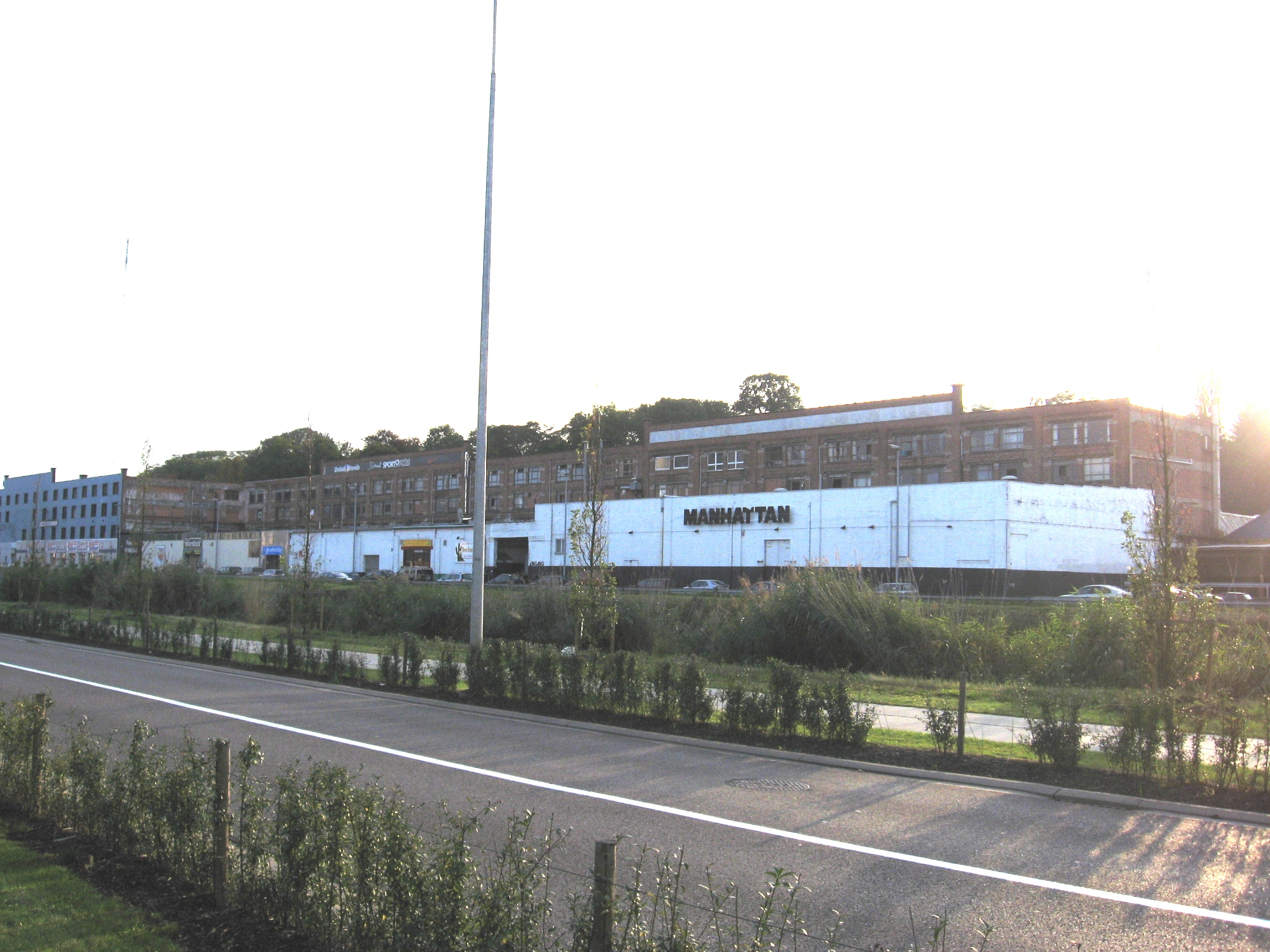 Former headquarters and production plant of Marie Thumas in Wilsele, Leuven, Flemish Brabant, Belgium